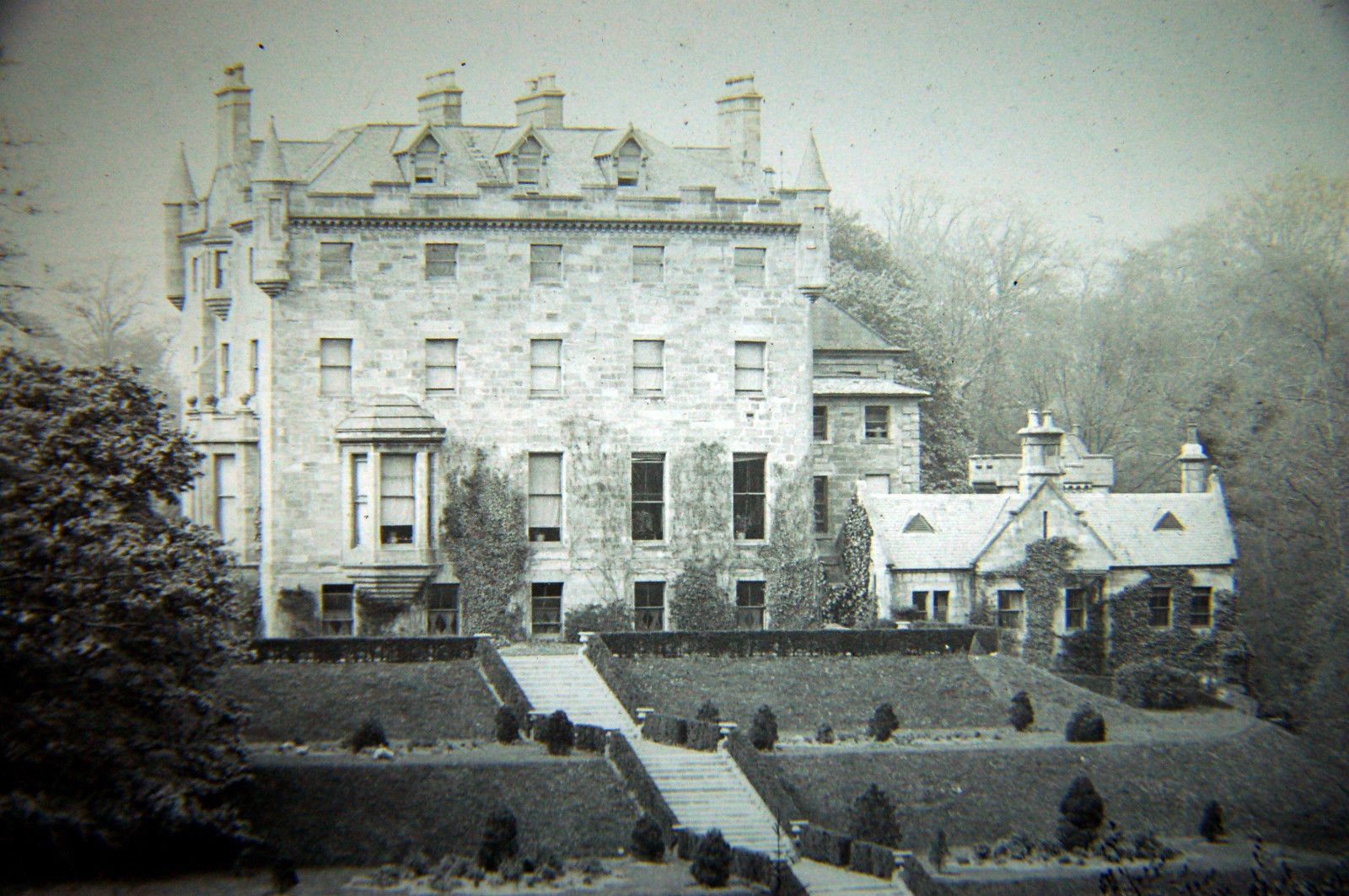 "Douglas Support" was later renamed Rosehall. It was inherited by Gen, Sir Thomas Monteath Douglas in 1851. He pictured in an estimated 1890.